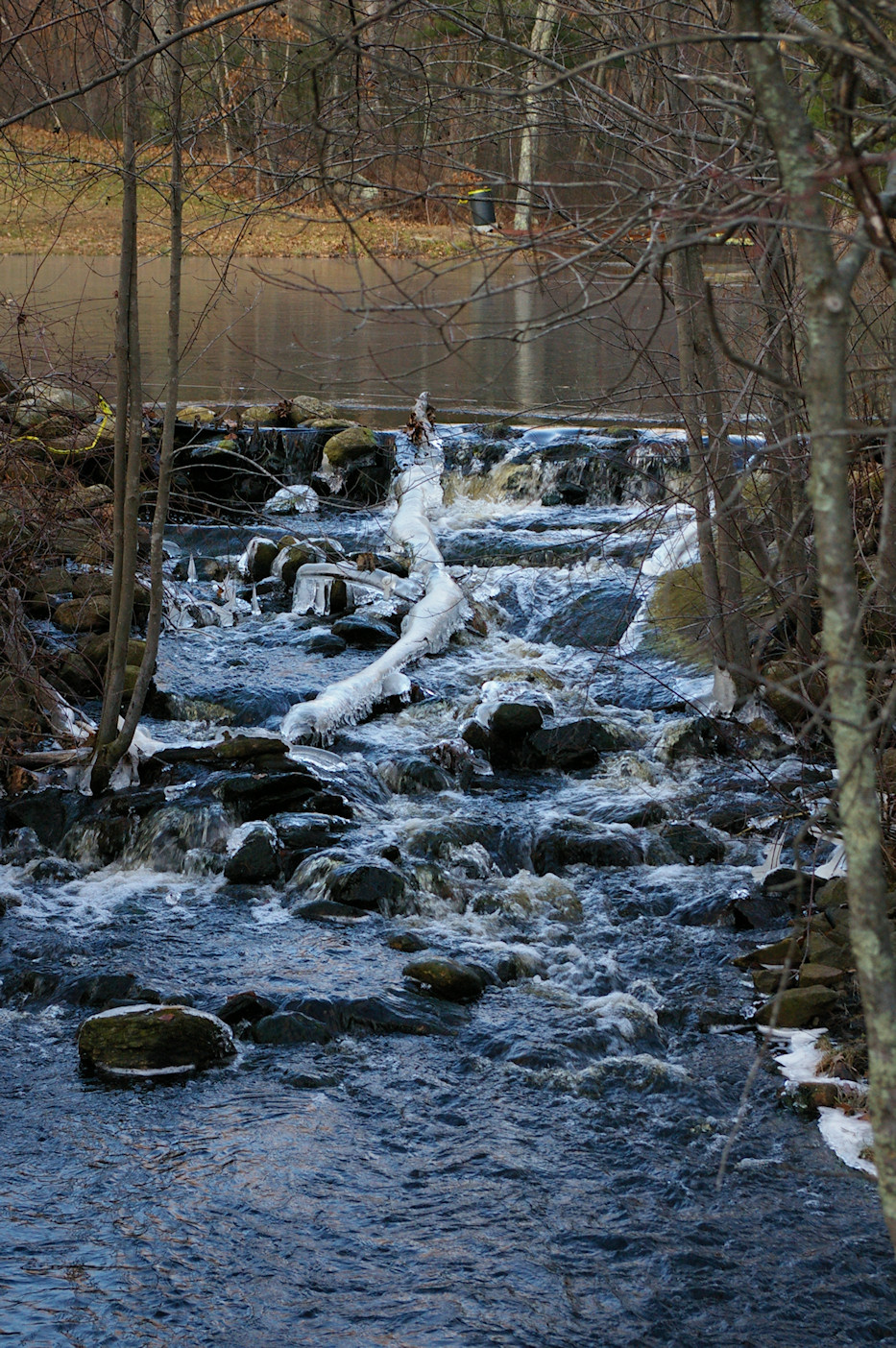 Chockalog River upstream view from the Brook Road crossing in Harrisville, RI.